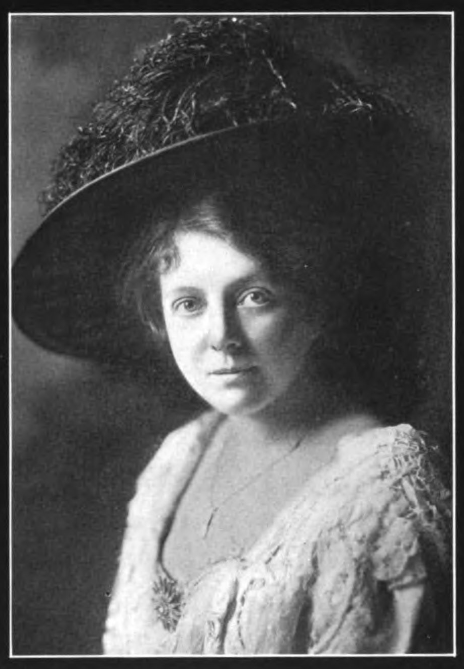 Blanche Lillian Deyo (née Pixley) (before 1902 – August 29, 1933) was an American Broadway actress and vaudeville dancer of the early 20th century.